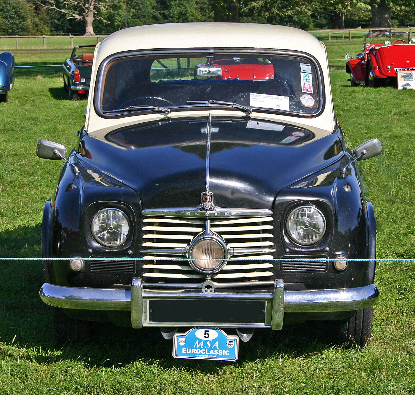 Rover 75 (P4). The single central spotlamp was controversial when the Rover P4 was launched in 1949. It was also illegal in some exports markets and was blanked off. In 1952 a more conventional grille was fitted.